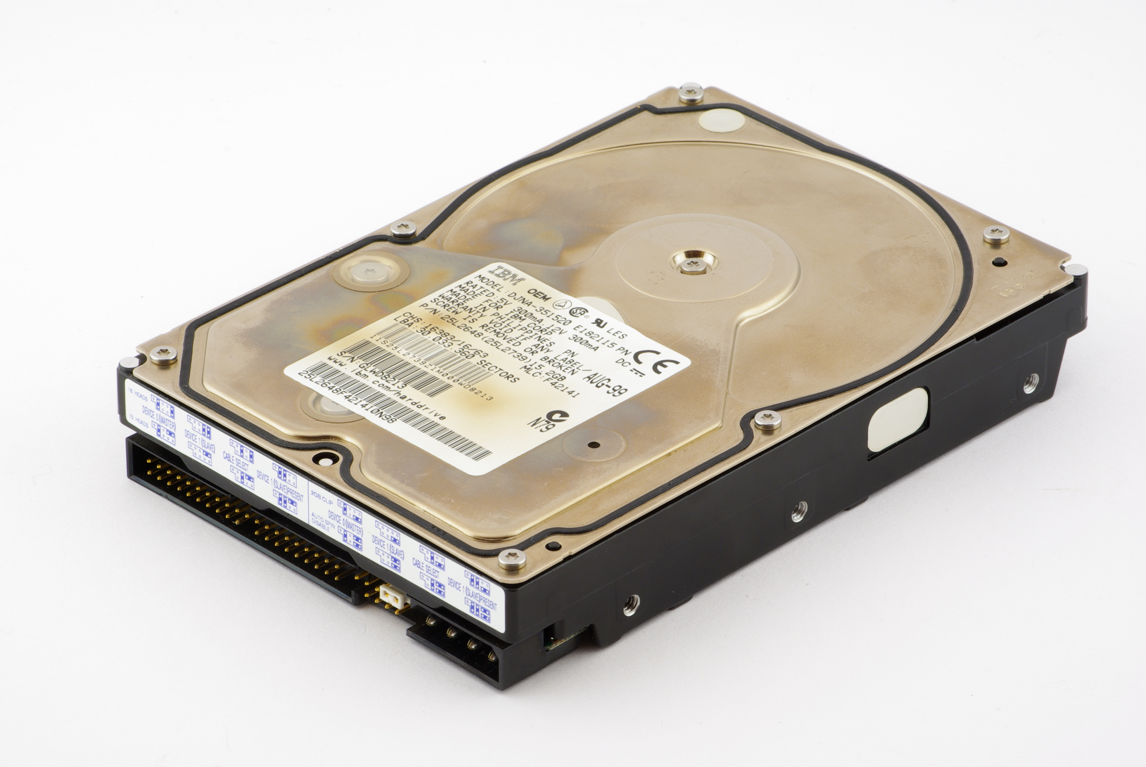 IBM DJNA-351520 hard disk drive (15 GB storage capacity, date of manufacture: August 1999).